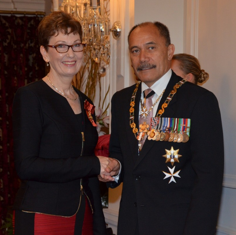 Associate Professor Kathryn Stowell, of Palmerston North, received the Insignia of an Officer of the New Zealand Order of Merit for services to biomedical science.